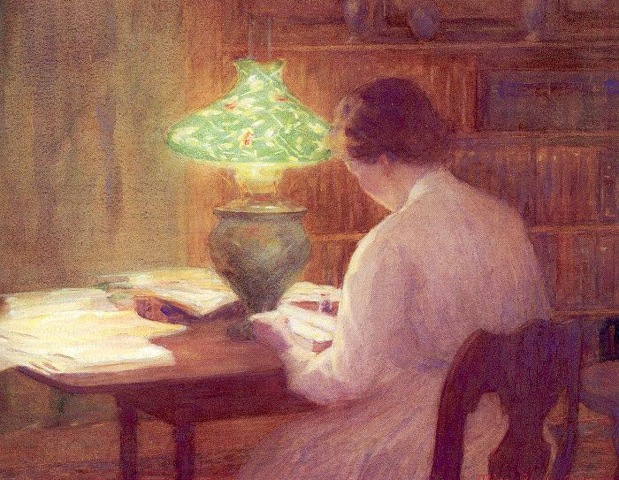 The evening lamp